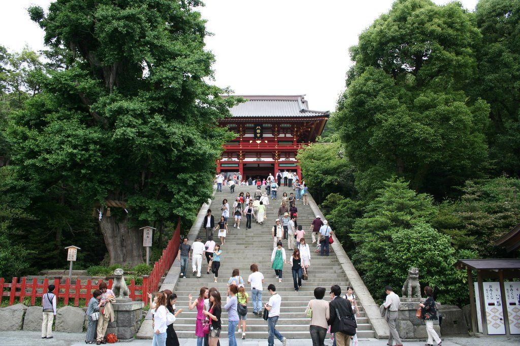 Tsurugaoka Hachiman-gū in Kamakura City, Japan